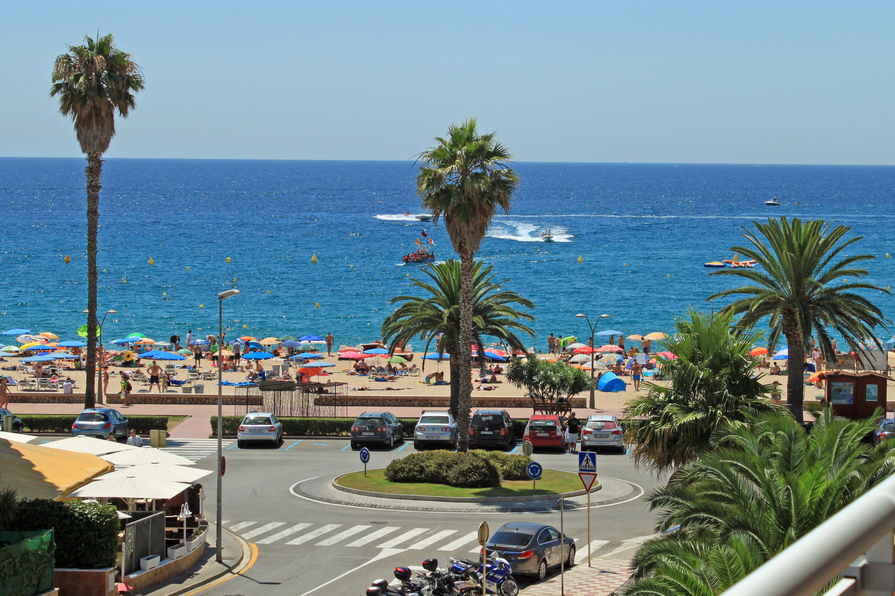 Lloret de Mar, Fenals beach, view from the balcony of hotel "Surf-Mar"